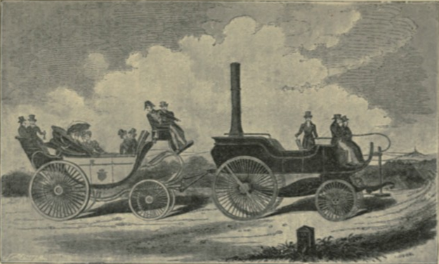 Gurney's steam carriage p.37 of Omnibuses and Cabs